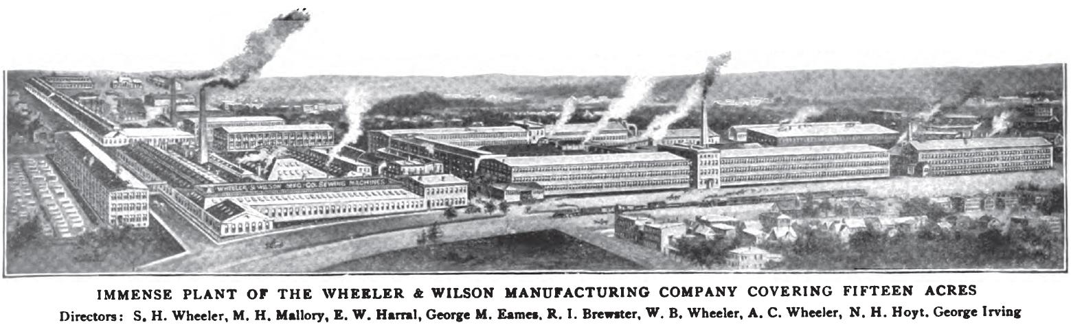 Immense plant of the Wheeler & Wilson manufacturing company covering fifteen acres. Directors: S. H. Wheeler, M. H. Mallory, E. W. Harral, George M. Eames, R. I. Brewster, W. B. Wheeler, A. C. Wheeler, N. H. Hoyt, George Irving.